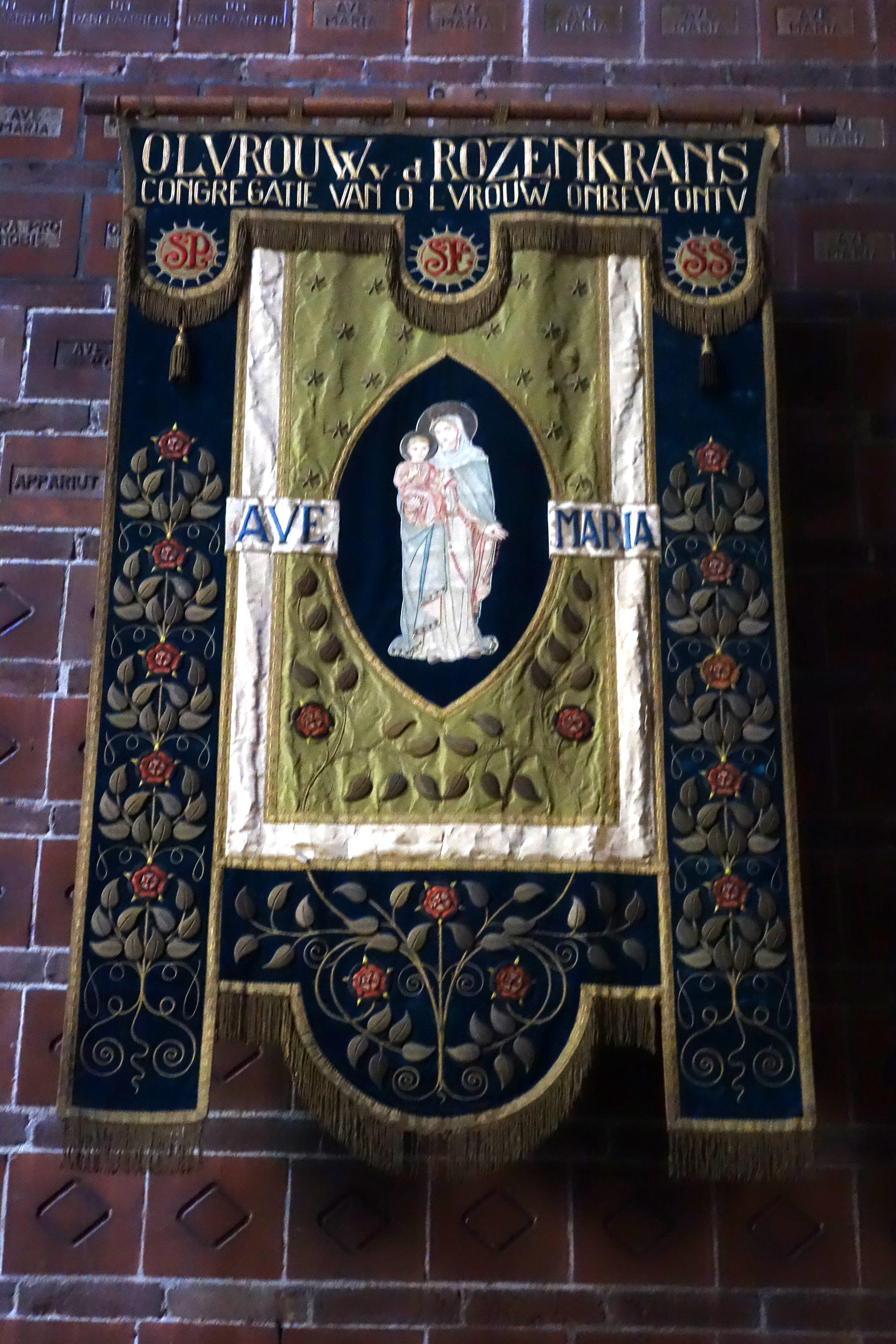 Maria devotion in the chapel of the former Onze-Lieve-Vrouw-van-Lourdeskerk (Scheveningen).